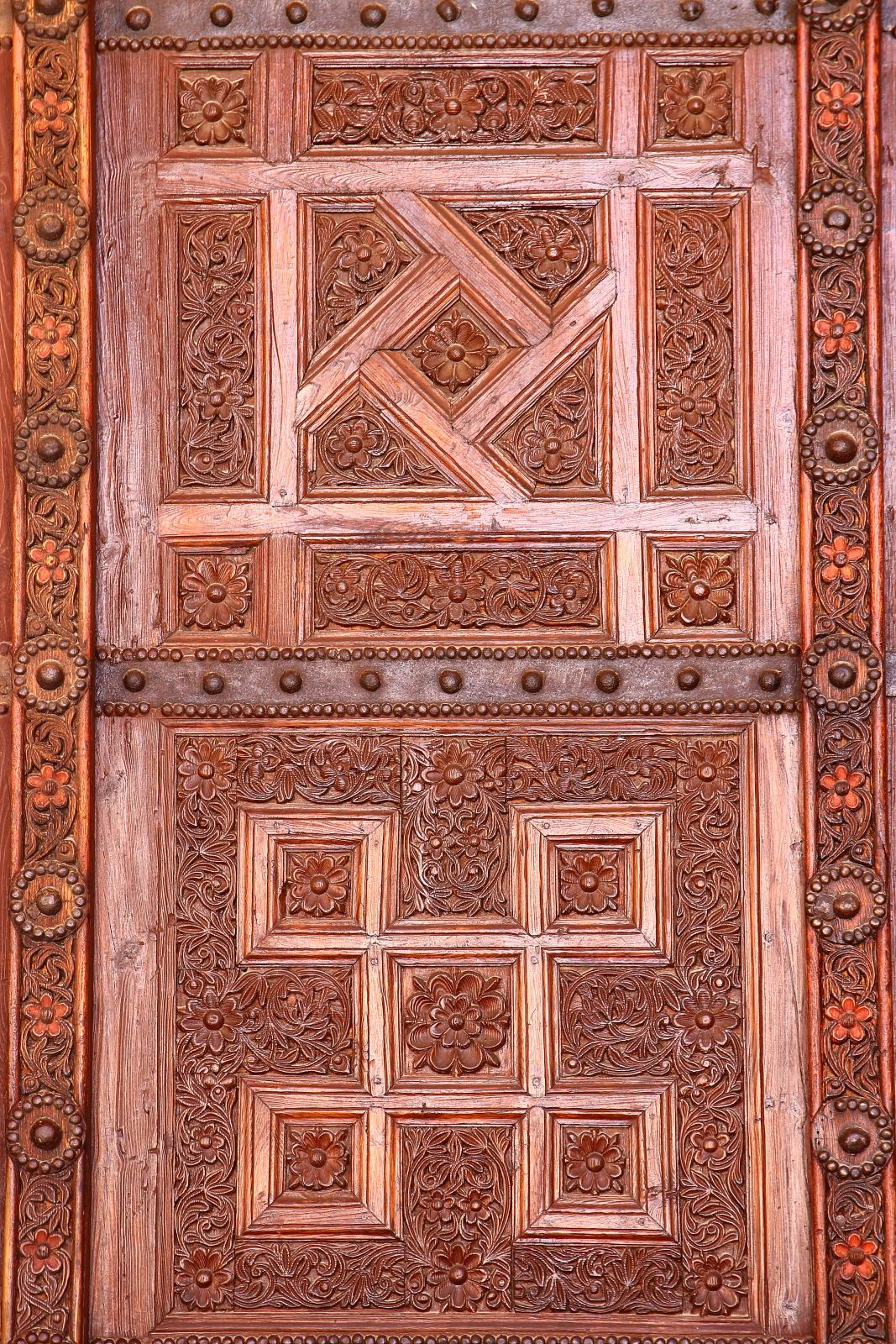 Close view of the carved wood panels of the main door of the prayer hall in the Great Mosque of Kairouan (also called Mosque of Uqba), in Tunisia.